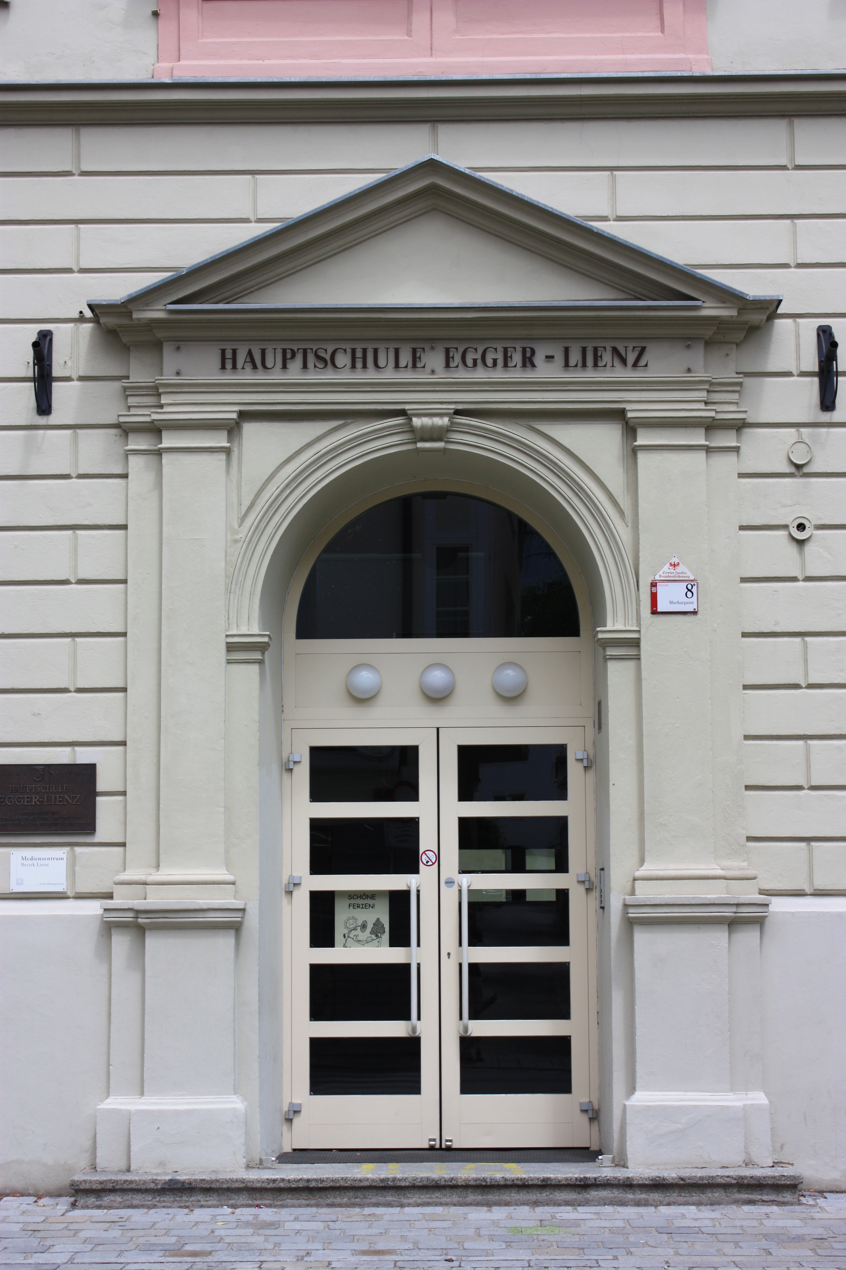 Portal of the Egger-Lienz Highshool Locality:Muchargasse Community:Lienz